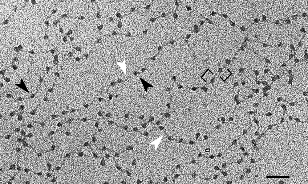 Electron micrograph of decondensed chromatin from chicken erythrocytes. Typical nucleofilaments (11-nm chromatin fibers, aka ”beads-on-a-string”) are seen. Black brackets highlight individual nucleosomes; black arrowheads point to nucleosome core particles (the beads), white arrowheads to linker DNA (the string). Scale bar: 50 nm.